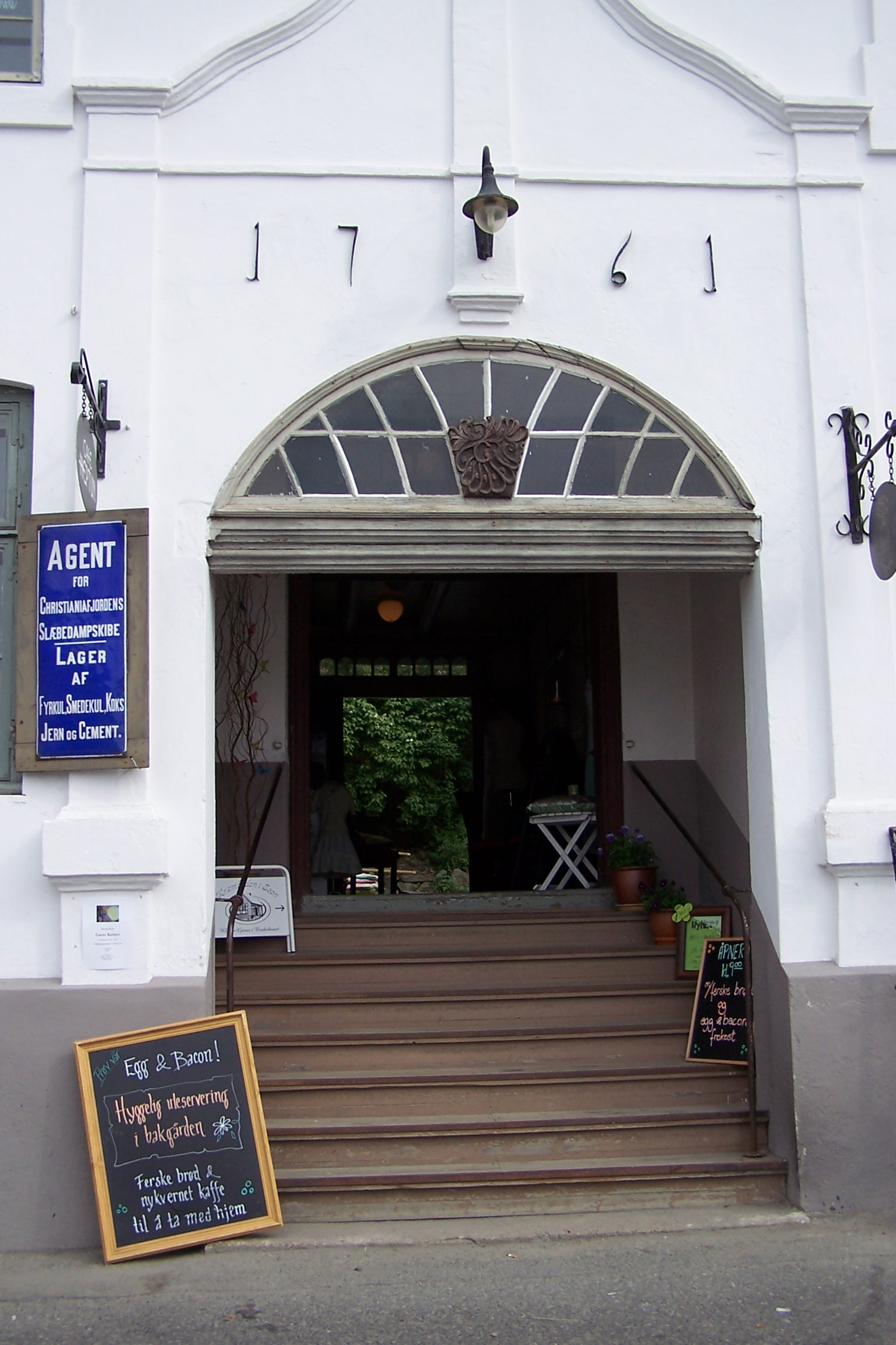 Son, Norway: Thornegården, main entrance